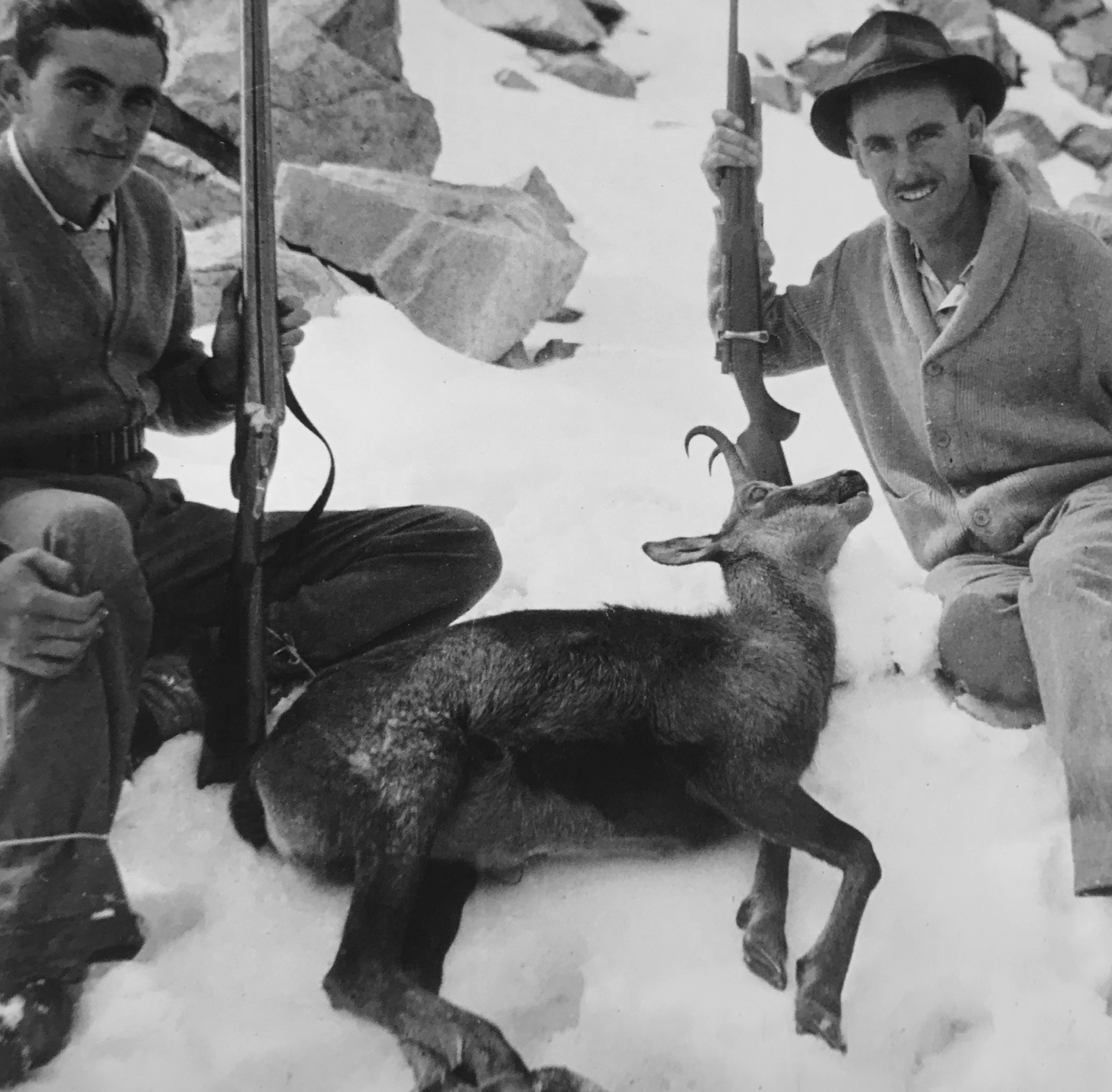 Jose María (Pepe) de Urquijo y Ramírez de Haro (left) and his uncle, Alfonso de Urquijo y Landecho (right) posing with a harvested Pyrenean Chamois in Spain, 1950.